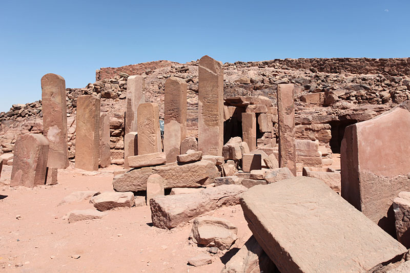 Both rock chapels, Temple of Hathor, Serabit el-Khadim, South Sinai, Egypt